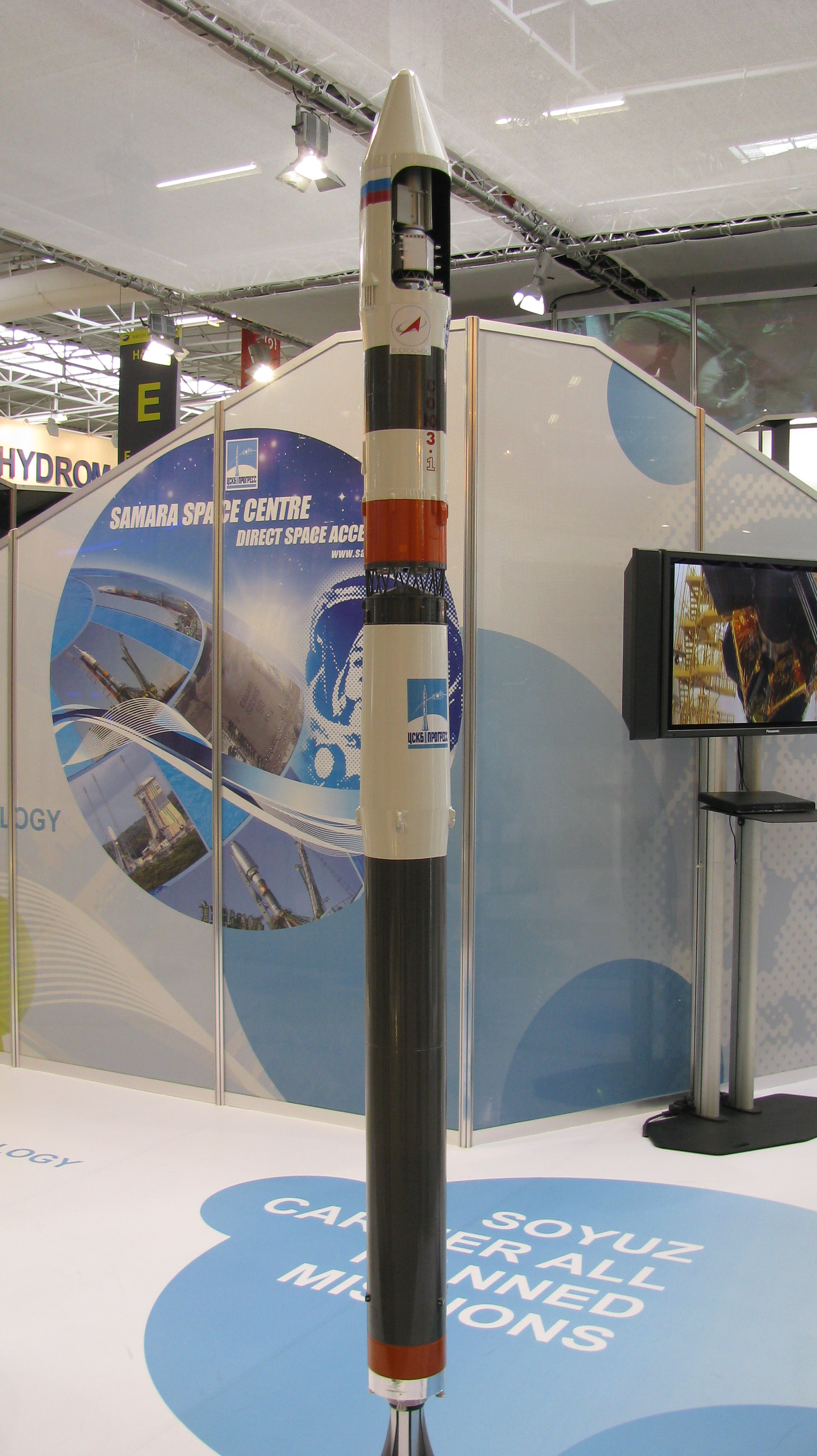 Model of Soyuz 2.1v rocket at the Paris Air Show 2011